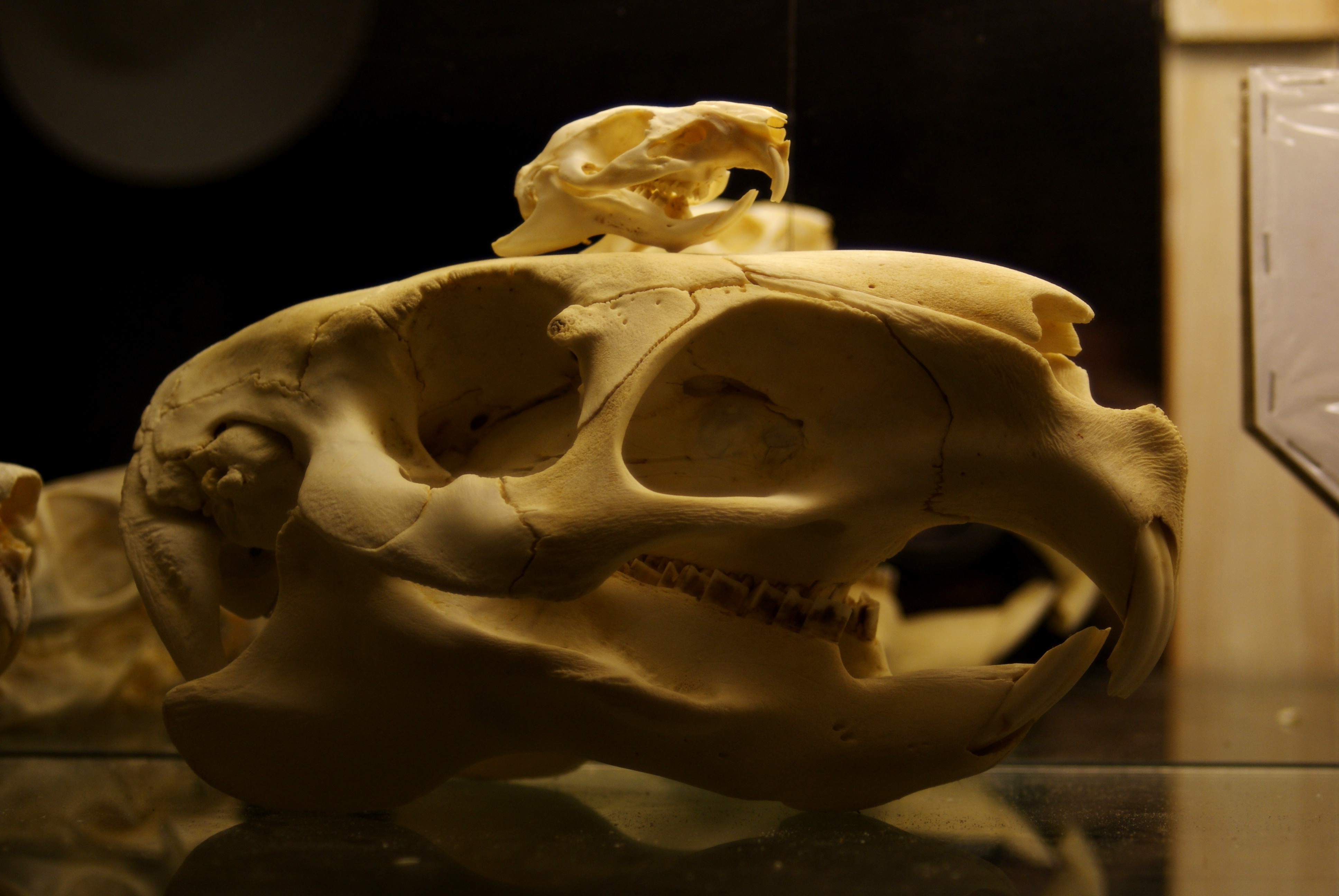 Note: This capybara is not particularly large. I have one that is larger and have seen live capybaras with likely larger skulls. Guinea pigs are also rather big-headed in terms of rodent body proportions. Regardless, the size disparity is obvious. Here is the largest rodent in the world, the capybara, with its close cousin, the guinea pig, atop its head. Some taxonomists put the capybara in its own family, the Hydrochoeridae, while other lump it into Caviidae, the guinea pig family. Regardless, capybaras are more closely related to caviids than other rodents, and both belong the remarkable South American radiation of caviomorph rodents, hysticomorphous rodents (note the large infraorbital foramen) that accidentally made their way across the Atlantic in the Eocene while South America was still splendidly isolated from the rest of the continents. There were many caviomorphs larger than the capybara before modern times, including rhino sized dinomyids.